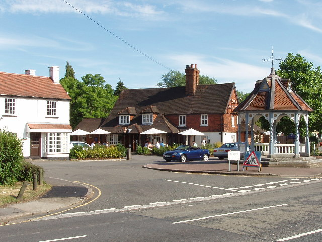 Ickenham - water pump, pub, and houses. These are buildings just to the East of Long Lane, near the centre of Ickenham.